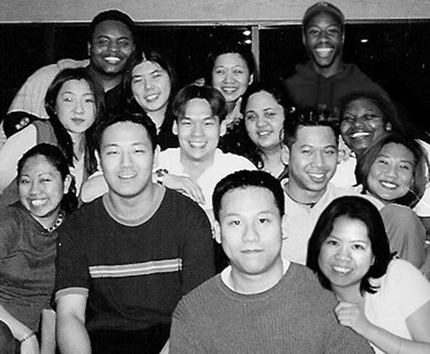 Founding Siblings of Theta Delta Sigma